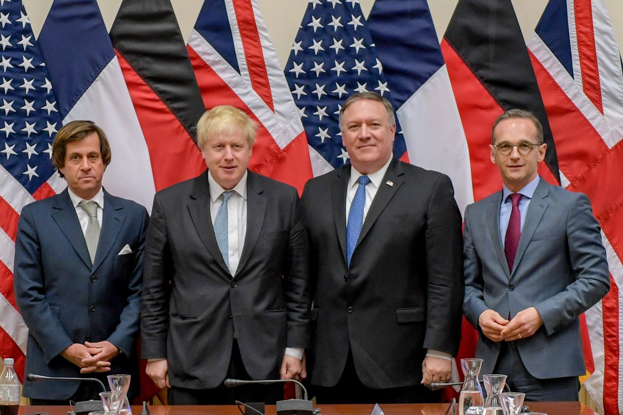 During the NATO Ministerial in Brussels, Belgium on April 27, 2018, U.S. Secretary of State Mike Pompeo (second from the right) meets with French Director General for Political and Security Affairs Nicolas de Rivière (far left), UK Foreign Secretary Boris Johnson (second from the left), and German Foreign Minister Heiko Maas (right).